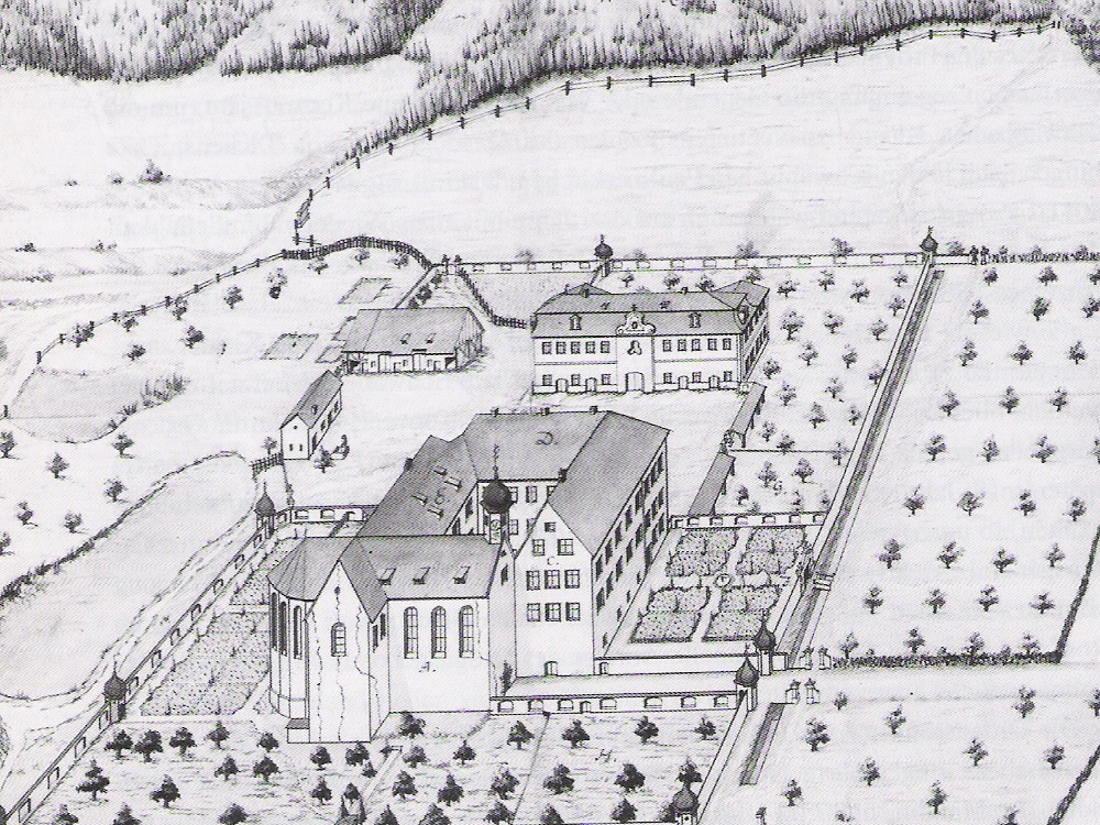 Germany - Baden-Württemberg - Bodenseekreis - Tettnang: Monastery Langnau